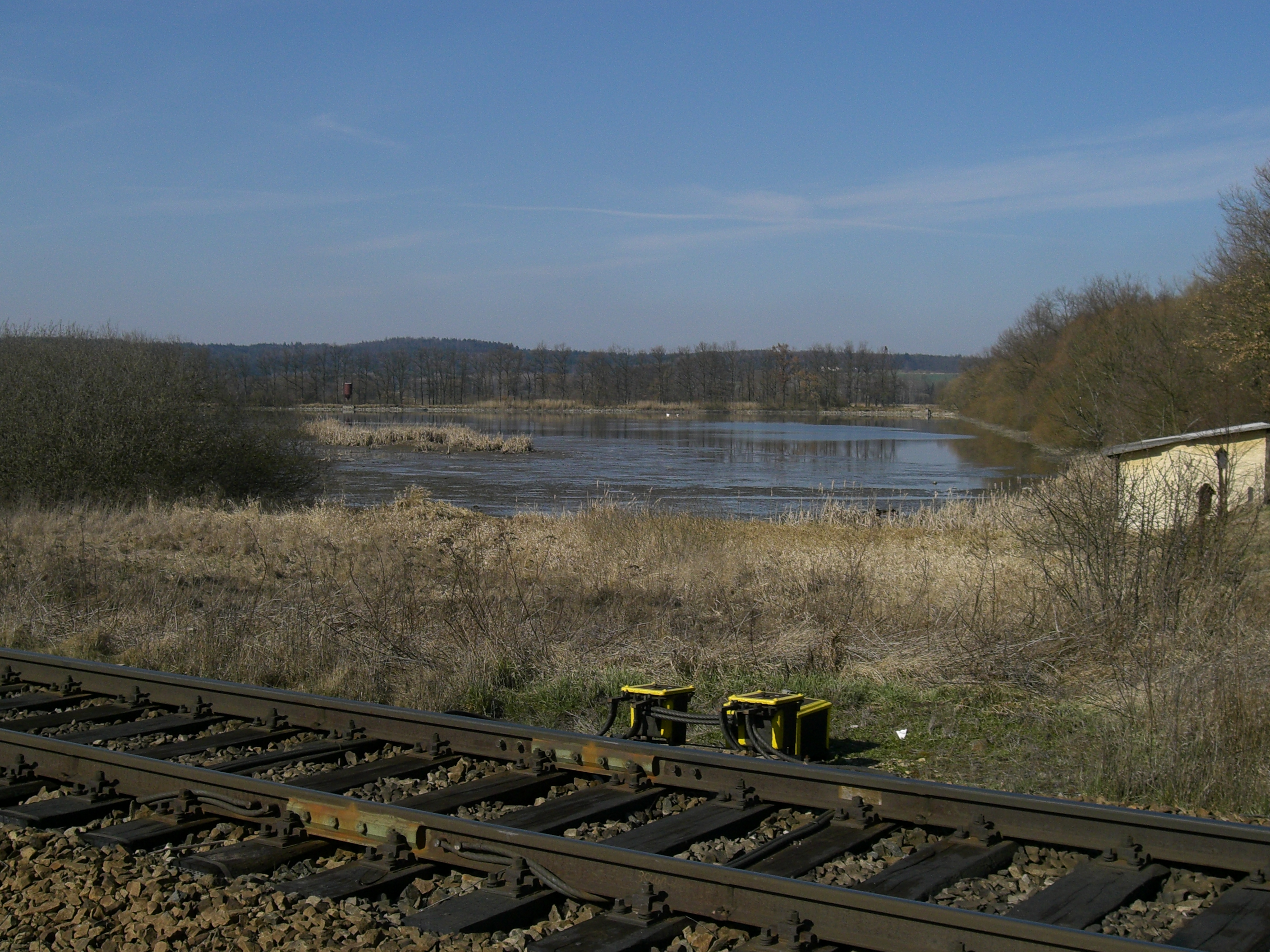 Skalský rybník - nature reservation in Písek district, Czech Republic.